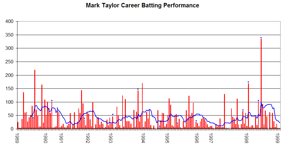 This graph details the Test Match performance of Mark Taylor. It was created by Raven4x4x. The red bars indicate the player's test match innings, while the blue line shows the average of the ten most recent innings at that point. Note that this average cannot be calculated for the first nine innings. The blue dots indicate innings in which Taylor finished not-out. This graph was generated with Microsoft Excel 2002, using data from Cricinfo and .au.